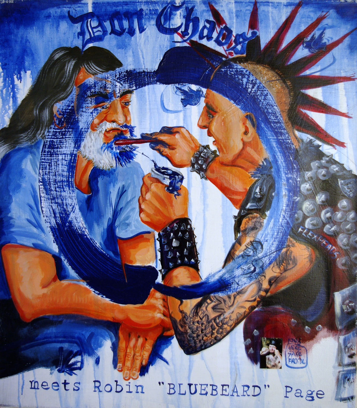 Mike Spike Froidl meets Robin "Bluebeard" Page